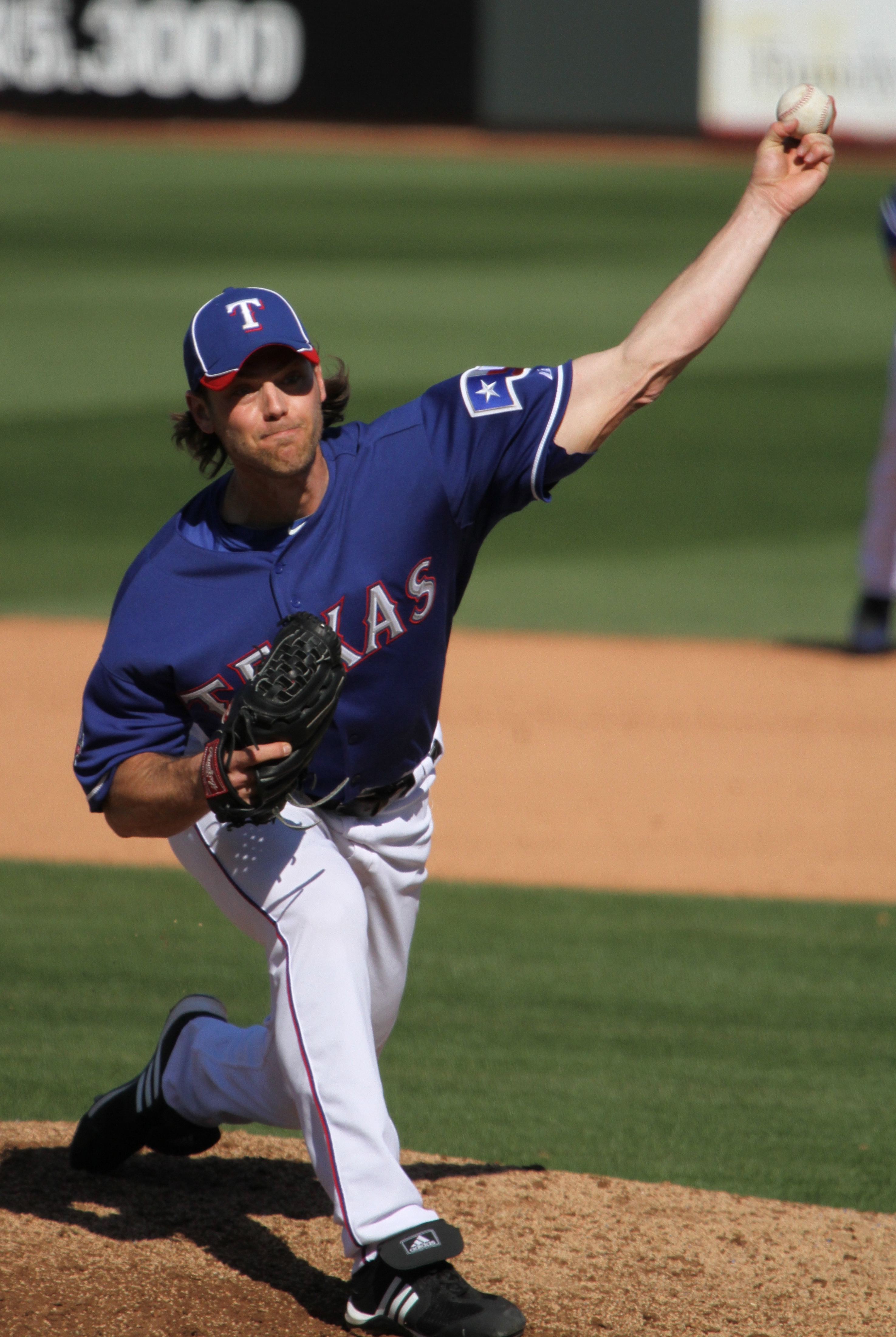 Neal Cotts